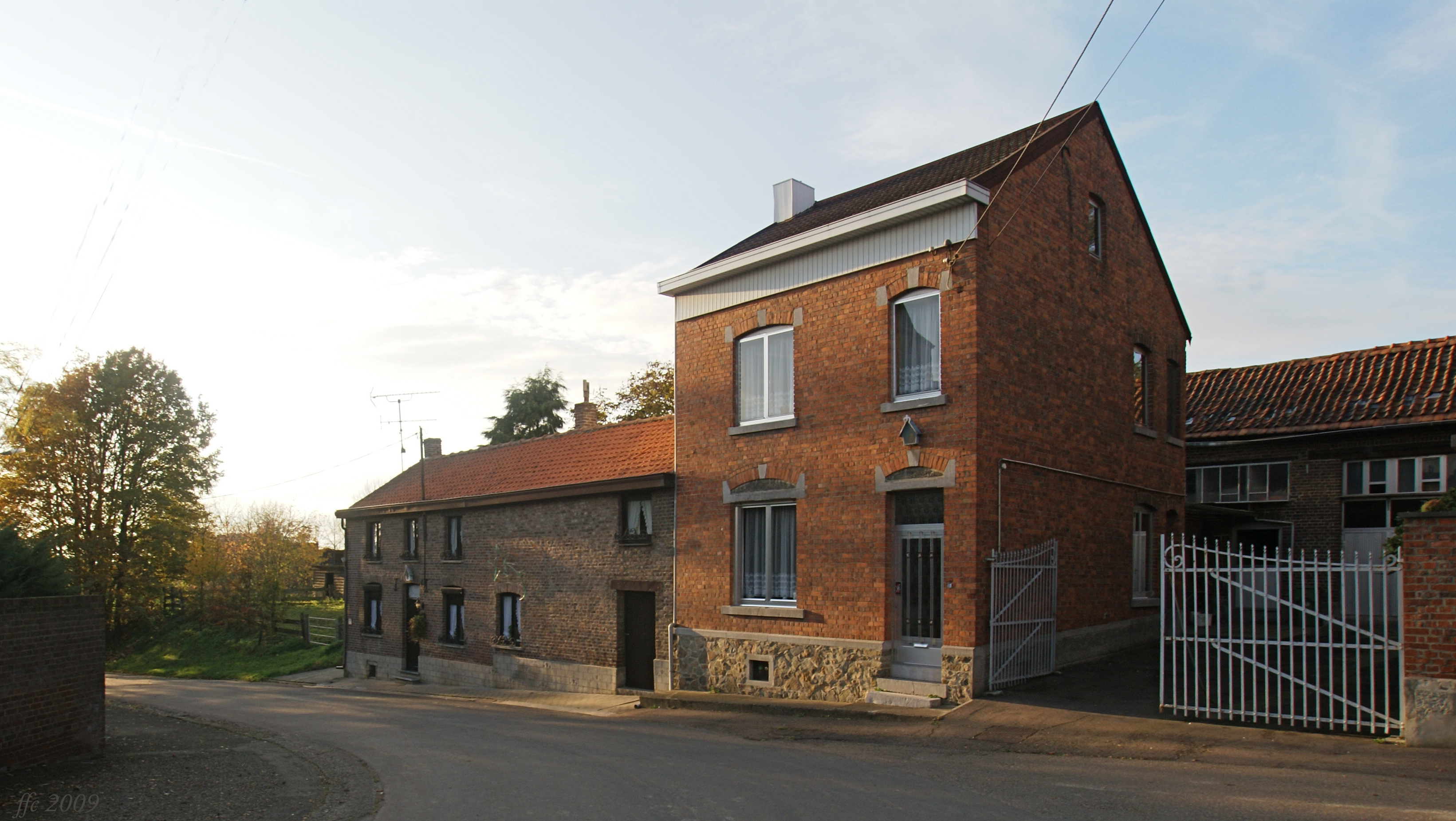 Berg (Belgium): Farm in the Bergerstraat